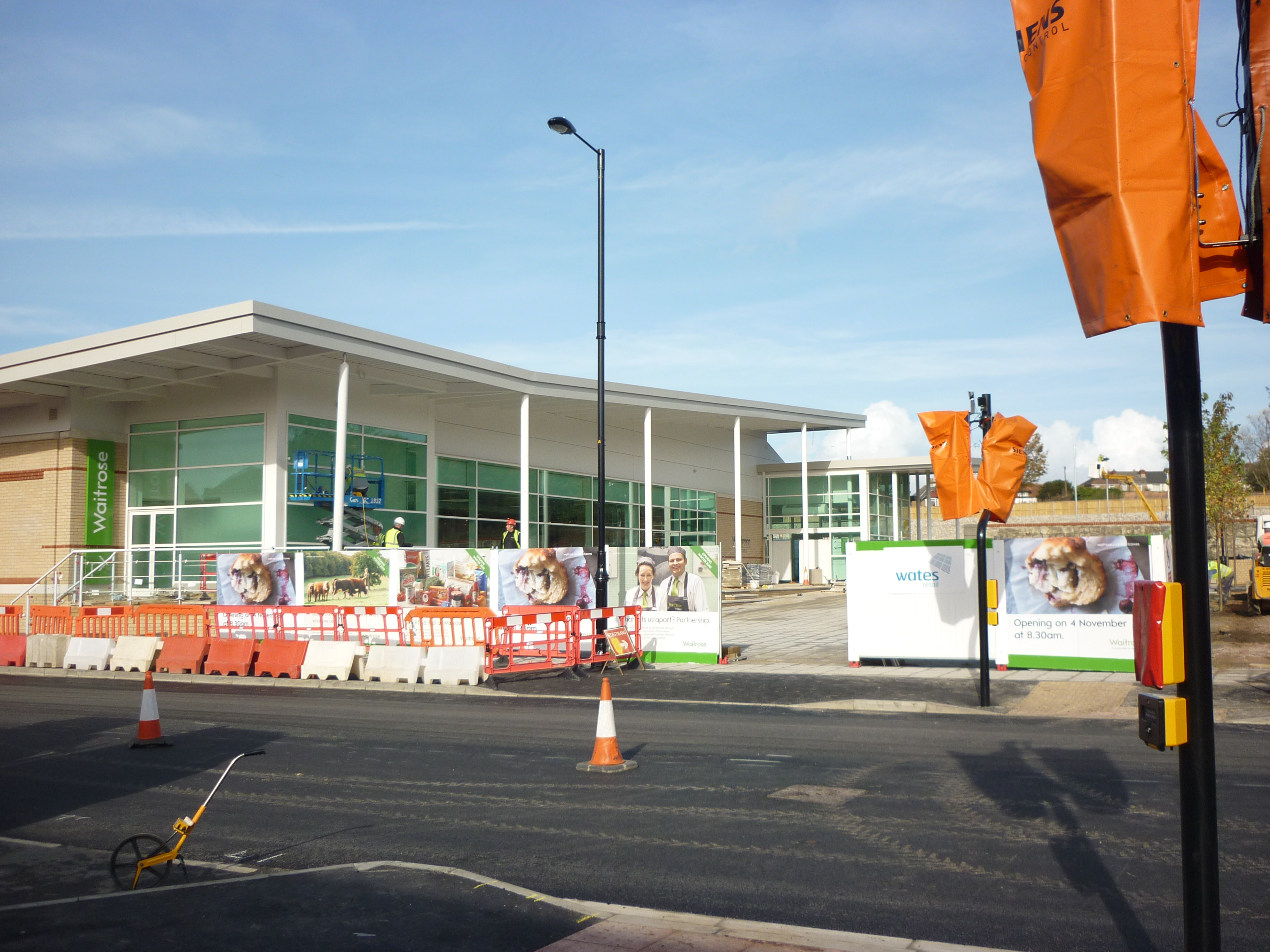 Part of East Cowes Regeneration Project, is Waitrose a new food store for East Cowes opening 4th November 2010.